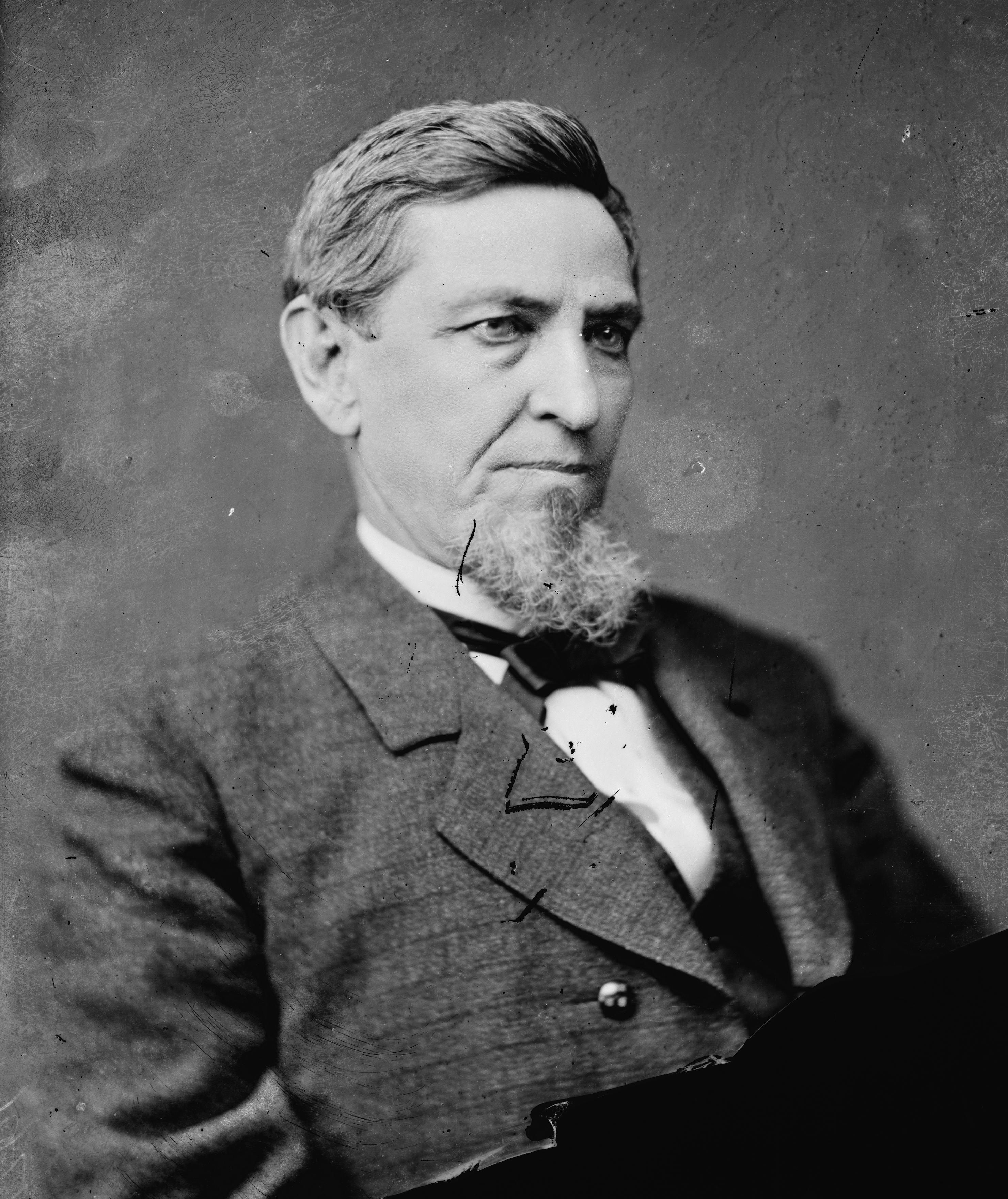 Morgan C. Hamilton. Library of Congress description: "Hamilton, Hon. Morgan Calvin of Texas"